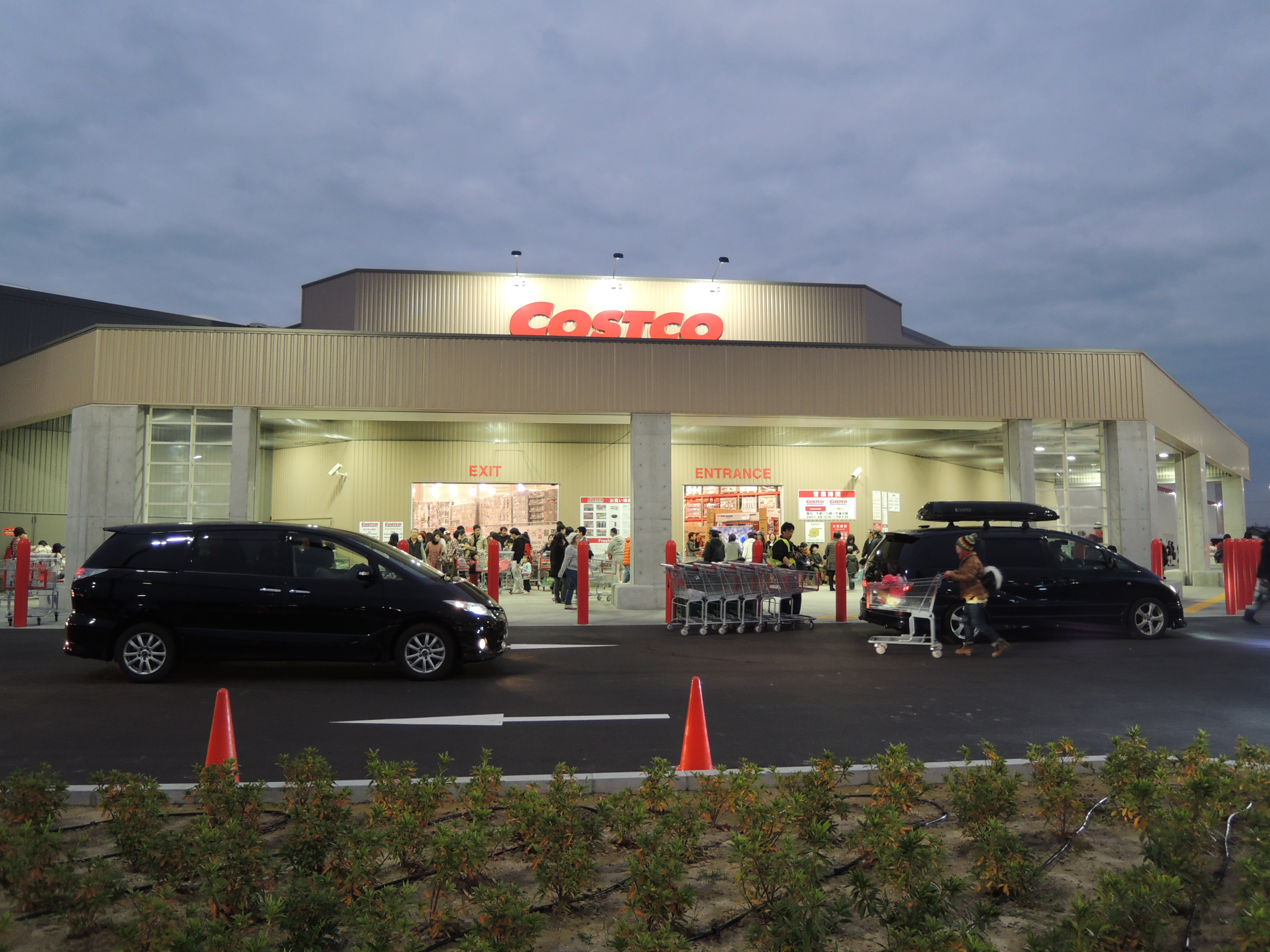 Costco in Hashima, Gifu Prefecture, Japan